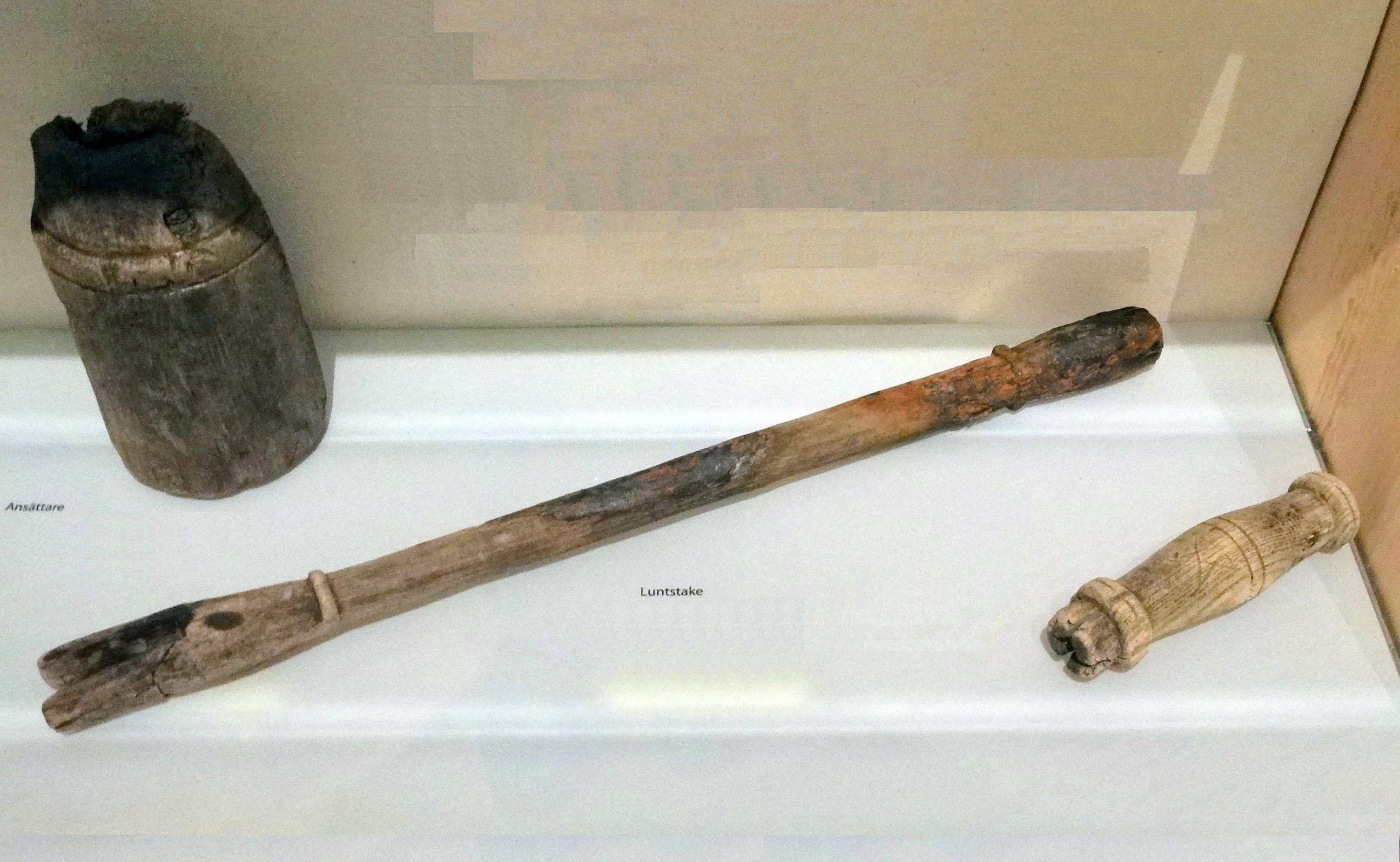 Arceological finds from the Swedish frigate Fredricus, exhibited at Bohusläns Museum, Uddevalla, Sweden. A rammer-tool, and linstocks.